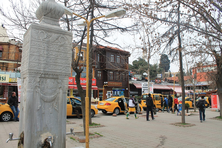 Yalı Street